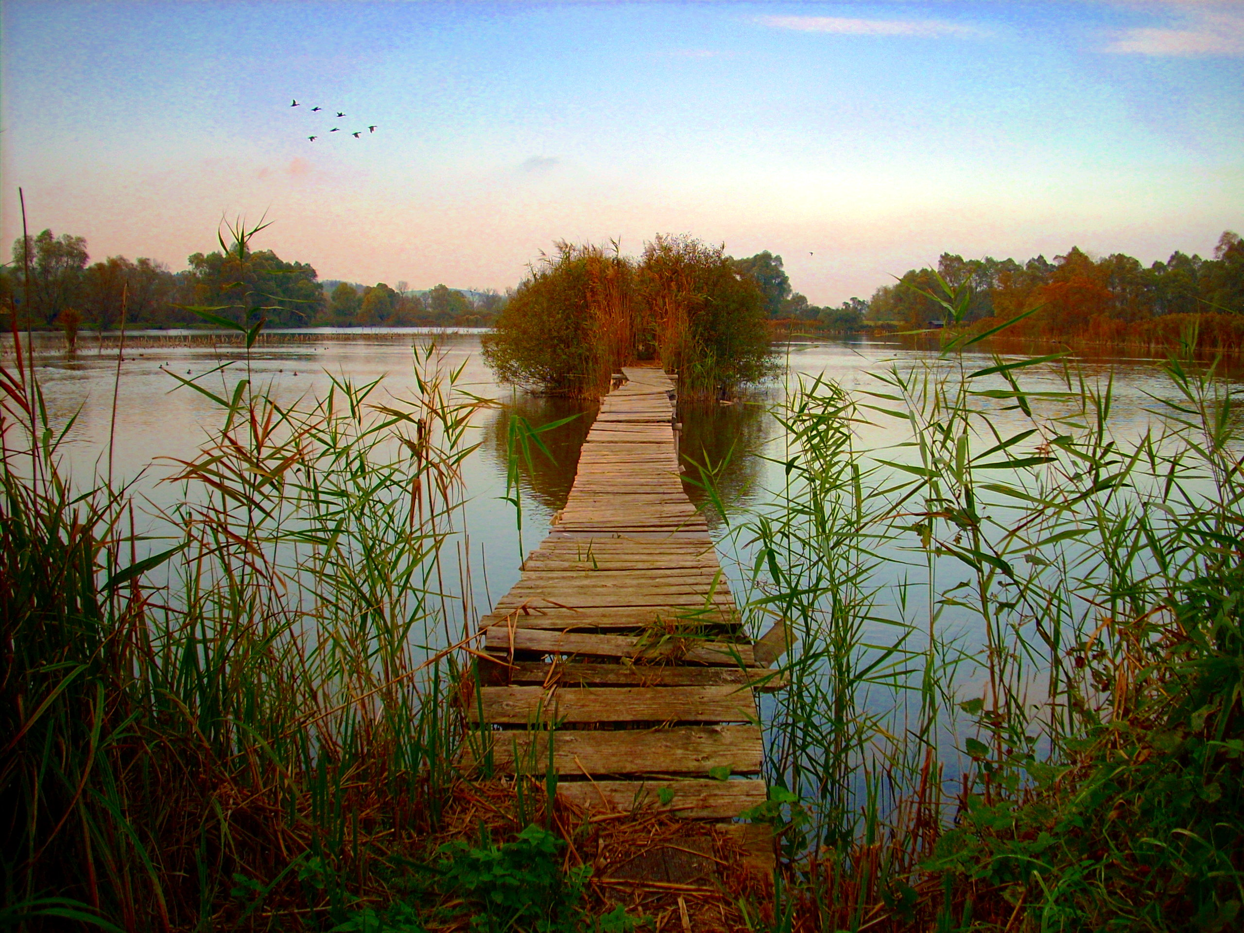 The lake at Pölöske, Hungary.